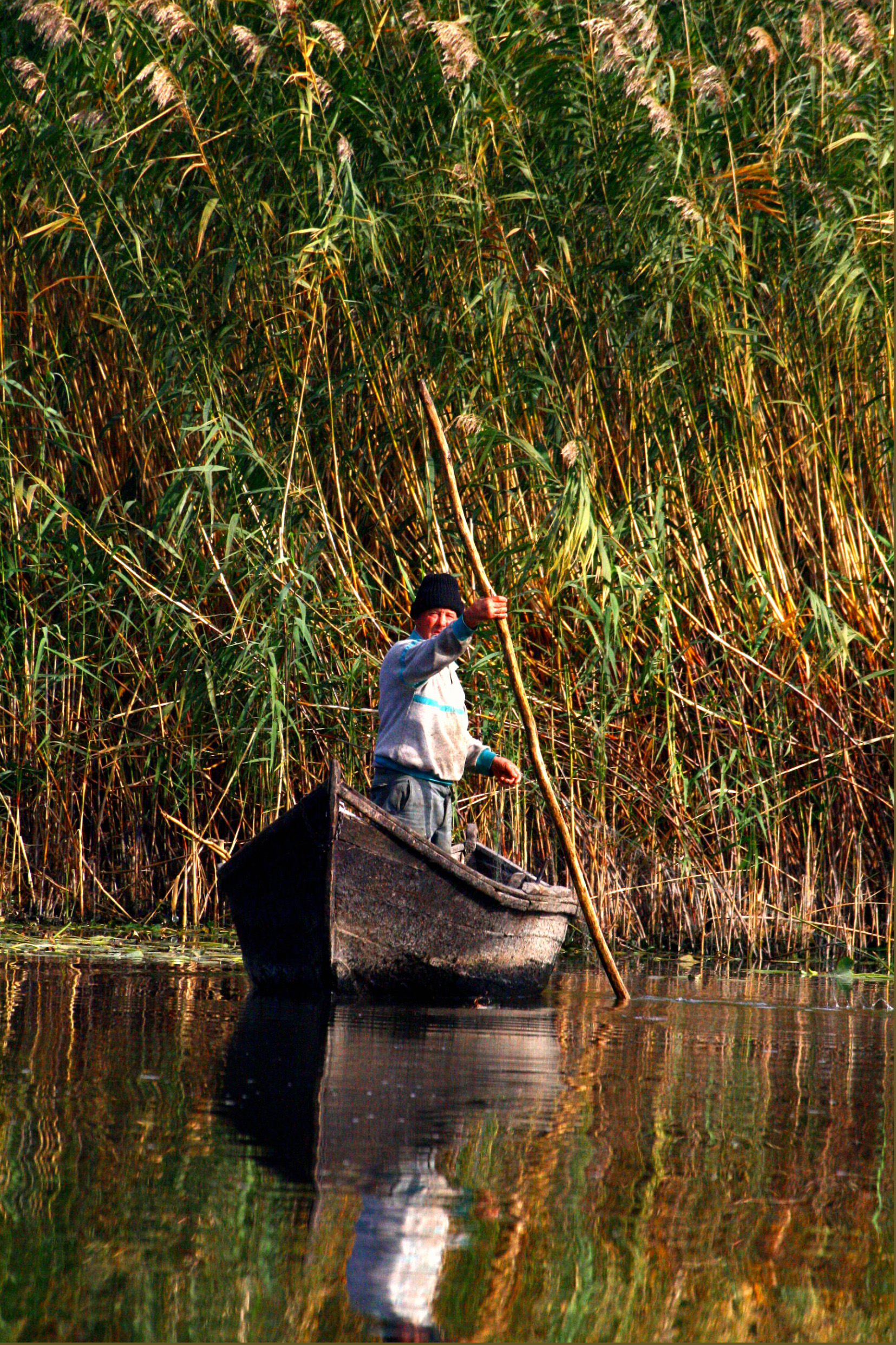 a fisherman in the Danube Delta